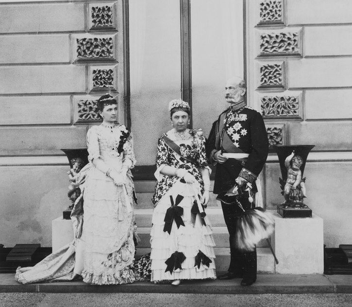 HSH The Prince of Battenberg Alexander Ludwig of Hesse - Darmstadt with HSH the Princess Julia of Battenberg and their first daughter Princess Marie Caroline of Battenberg